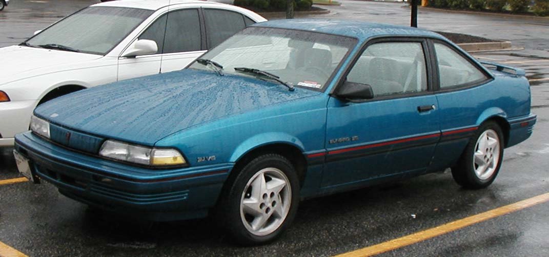 1988-1994 Pontiac Sunbird coupe photographed in USA.